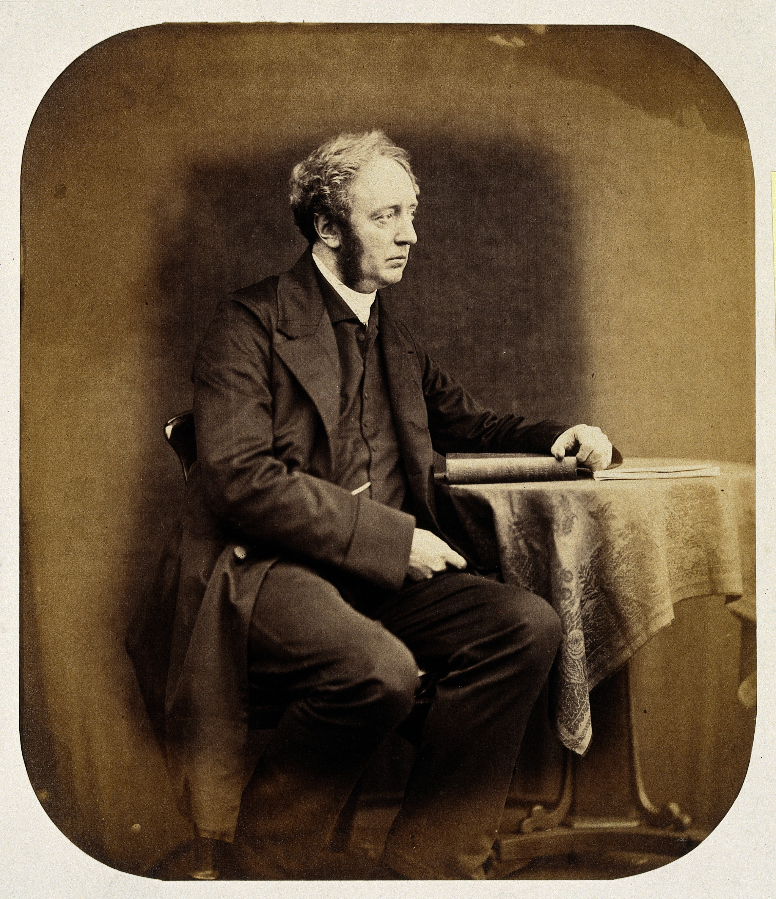 Photographic Society Club album - rules of photographs of the members of Photographic Society Club Autographed: "Francis Bedford, 1856" Iconographic Collections Keywords: portrait photographs; Hugh Welch Diamond